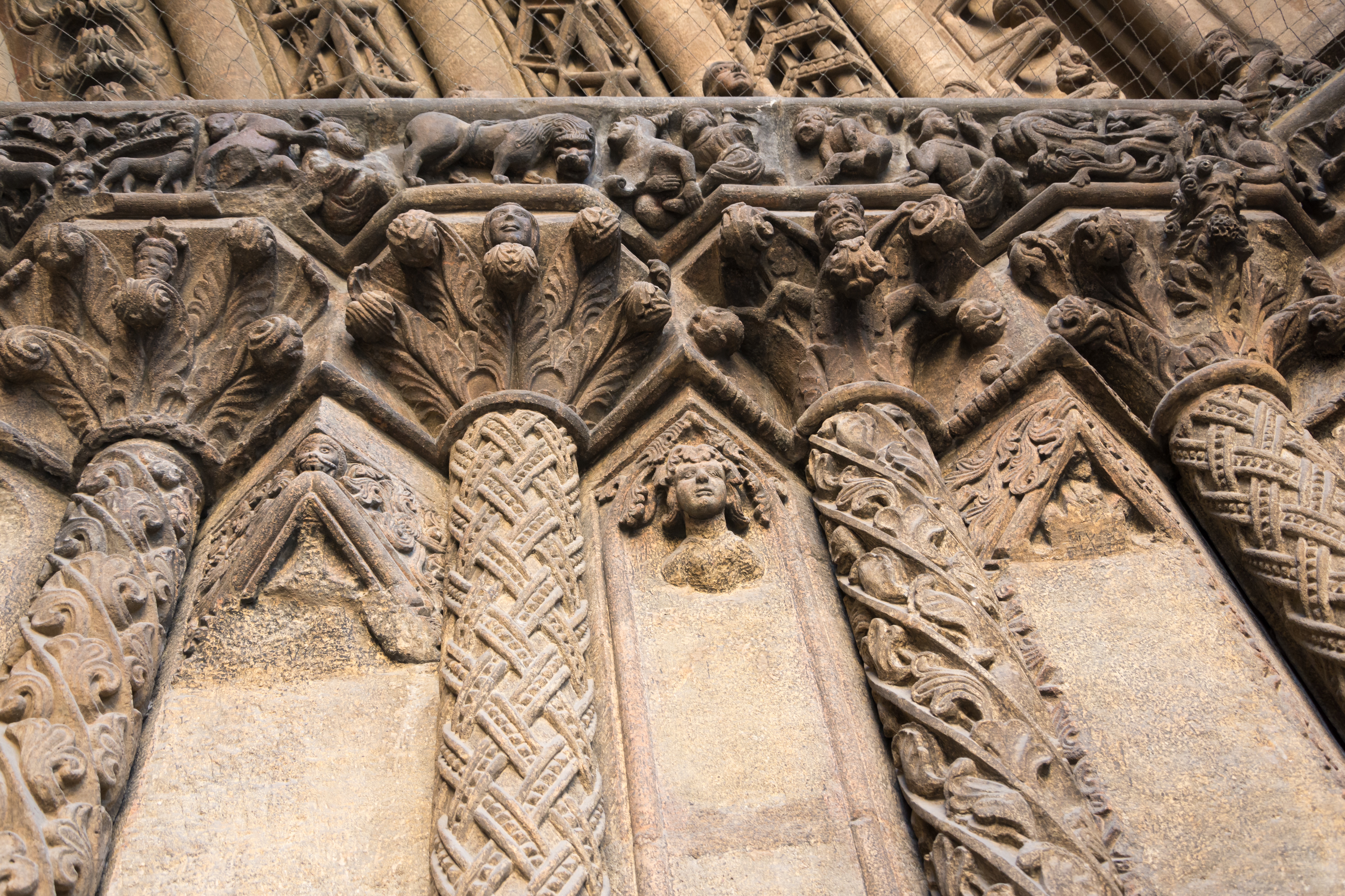 Capitals and frieze at the romanesque Riesentor ("Giant's Door"), St. Stephen's Cathedral, Vienna